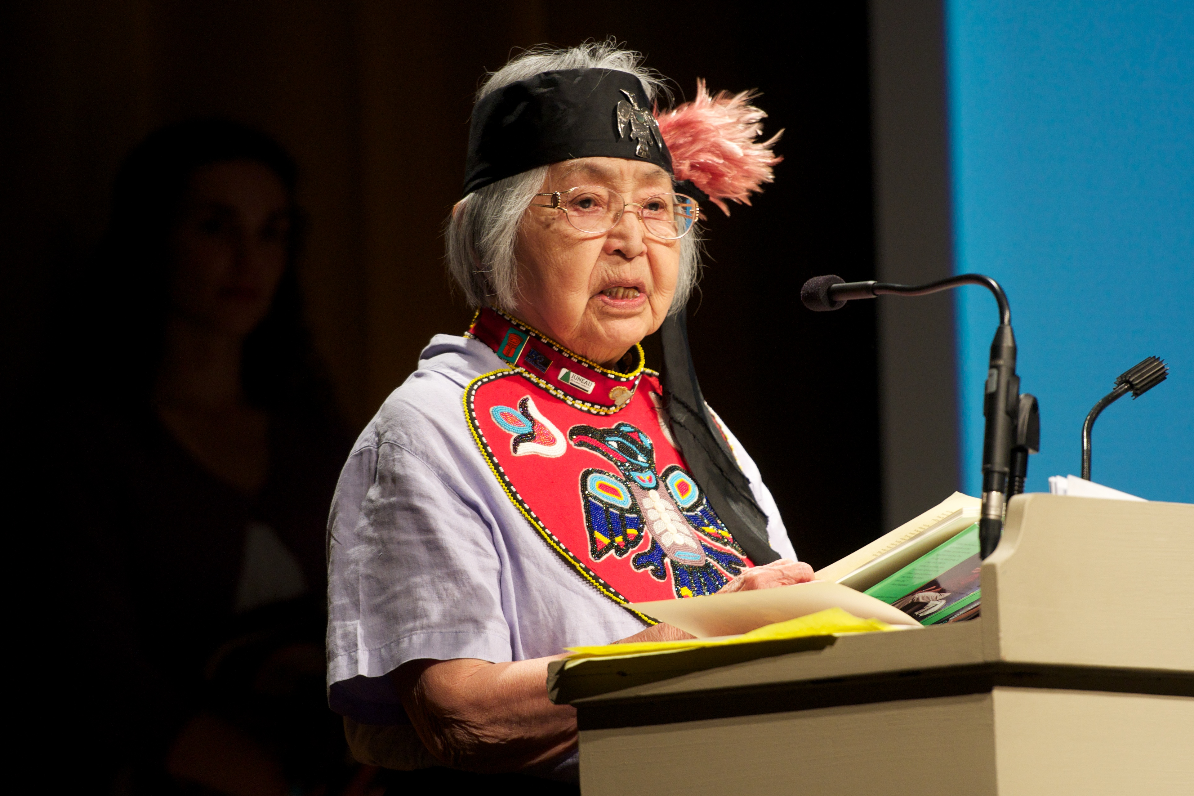 Nora Dauenhauer, a poet and writer, at the Indigenous Leadership Award in 2011.